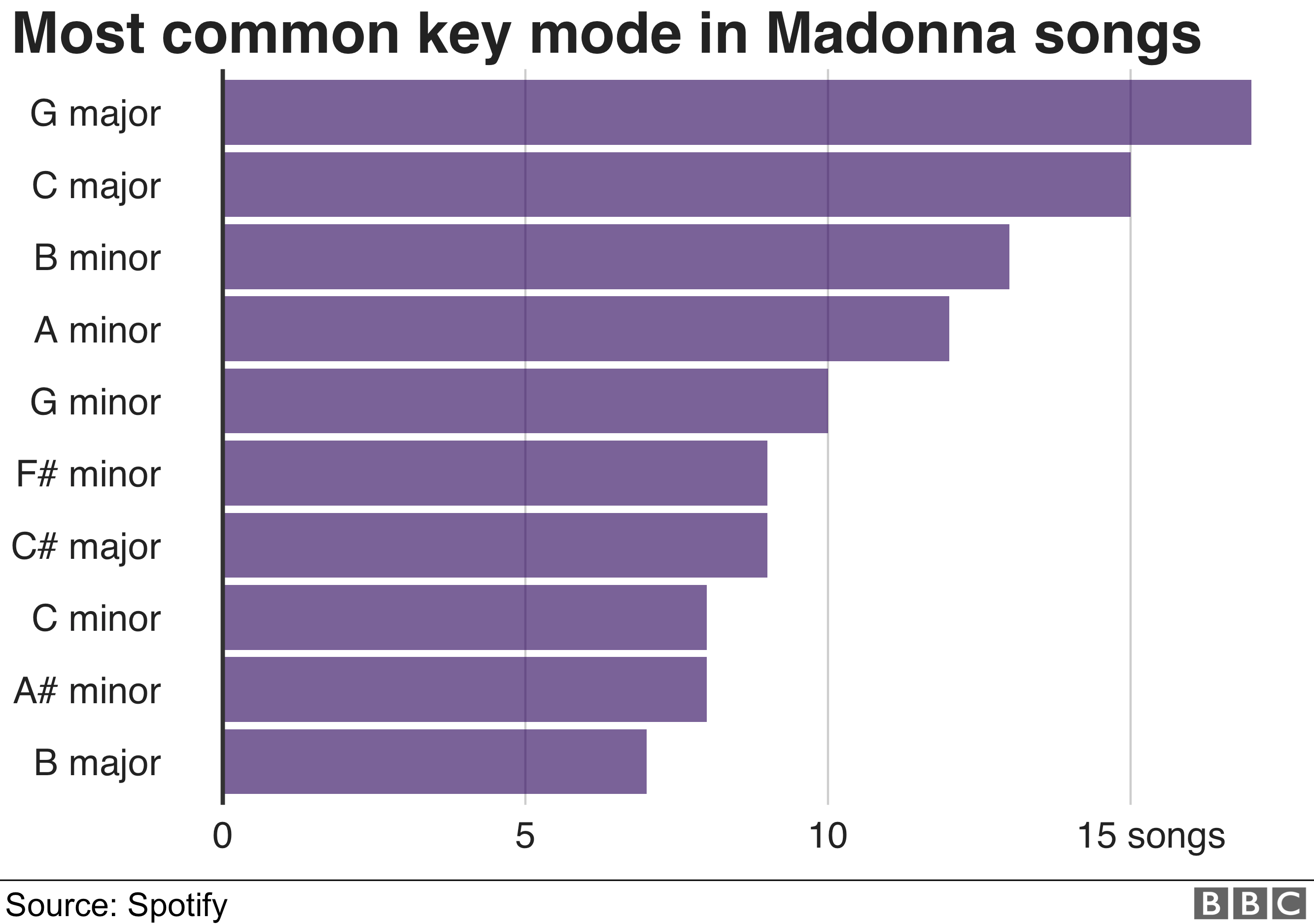 "The Most common key mode in Madonna songs" according to Spotify